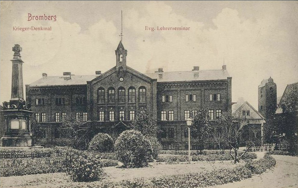 Bernardinska 6 Bydgoszcz 1907